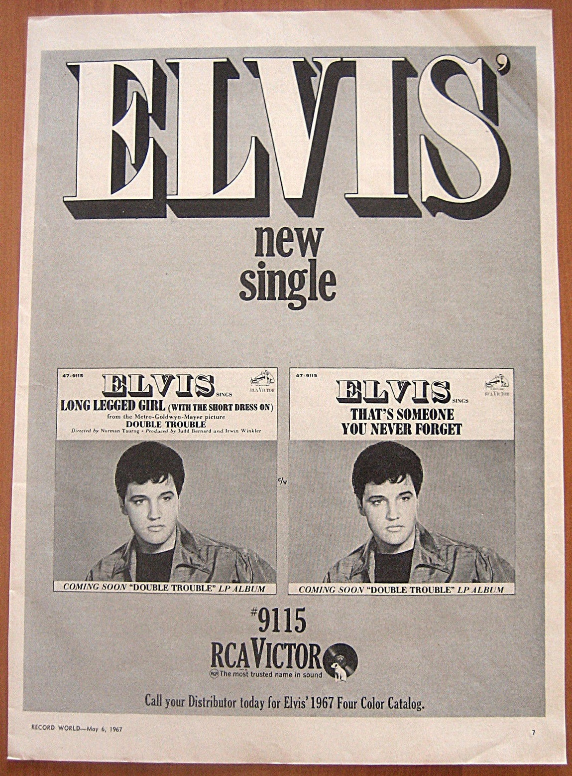 1967 RCA Victor promotional ad for the 45 single release of "That's Someone You Never Forget" by Elvis Presley. The date the ad appeared in the publication Record World is shown on this uncropped version at lower left. RCA Records did not mark this ad as copyrighted. The copyrights for the magazine Record World apply only to the editorial content of the magazine--not the advertising in it. US Copyright Office page 3-magazines are collective works (PDF) "A notice for the collective work will not serve as the notice for advertisements inserted on behalf of persons other than the copyright owner of the collective work. These advertisements should each bear a separate notice in the name of the copyright owner of the advertisement." Copyright for Record World magazine would not affect this non-marked RCA ad. RCA didn't label their ad as under copyright.